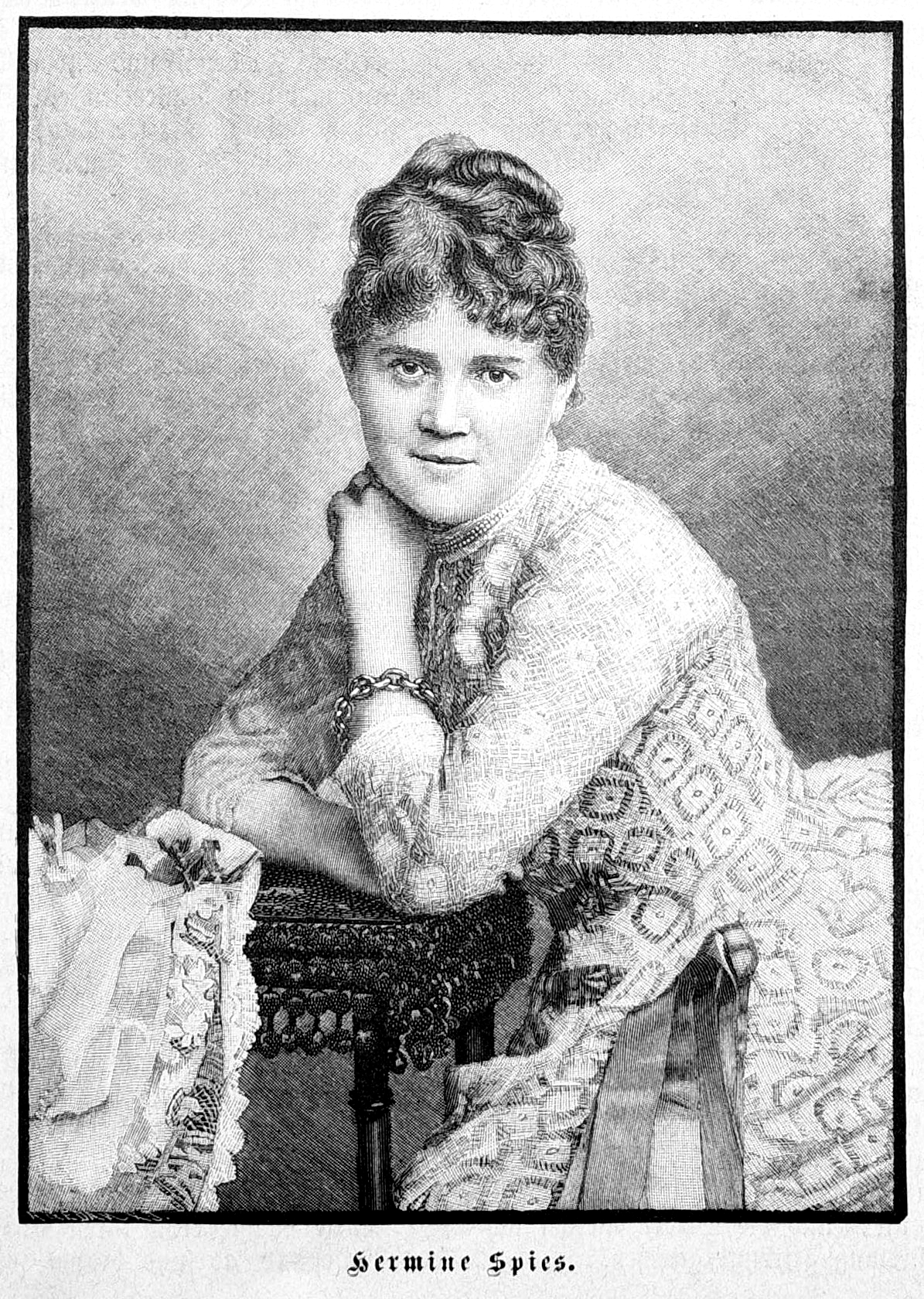 no caption